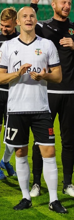 Mikhail Bagayev with FC Torpedo Moscow after the game against FC Yenisey Krasnoyarsk.